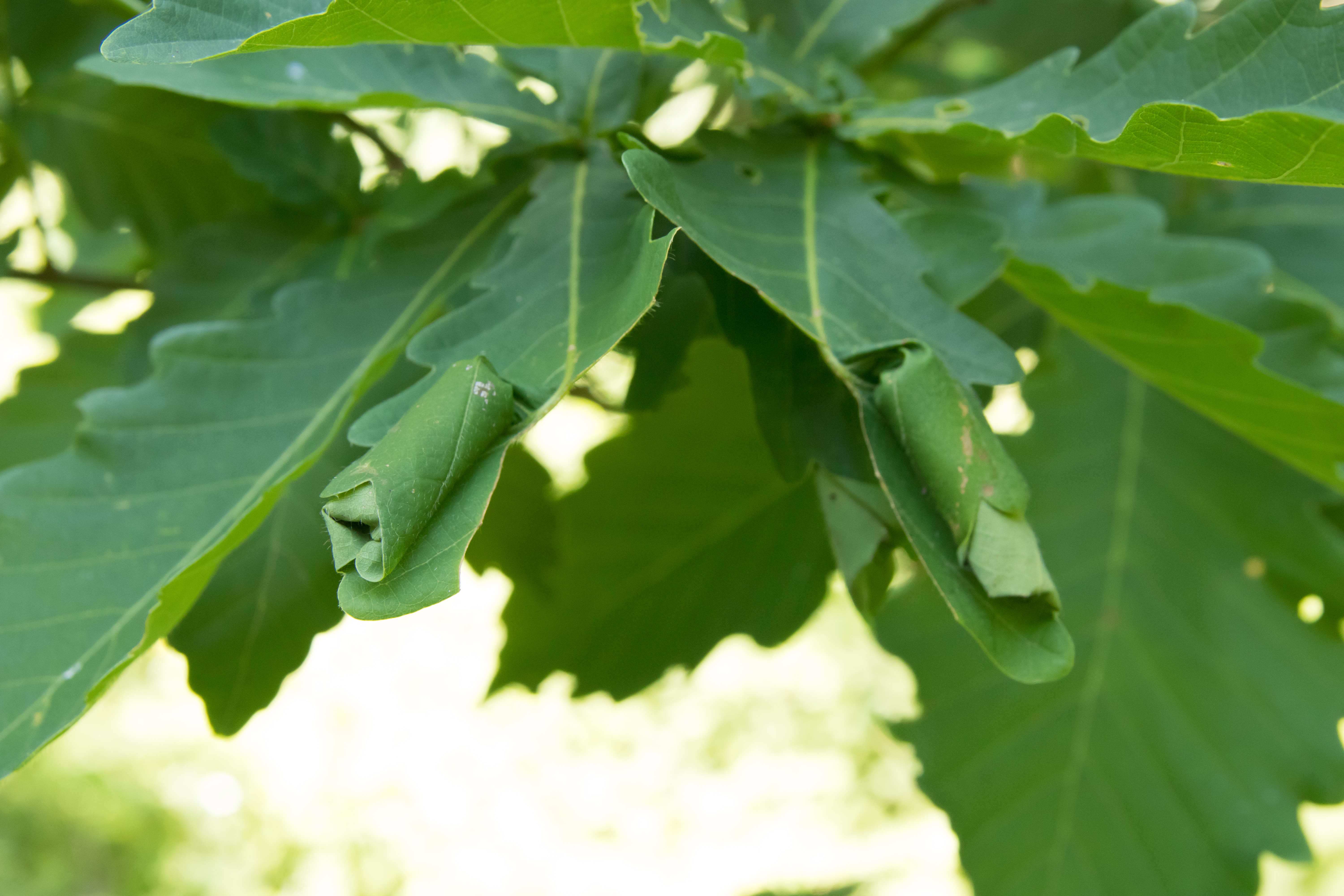 The cradle of Attelabidae (leaf-rolling weevils)